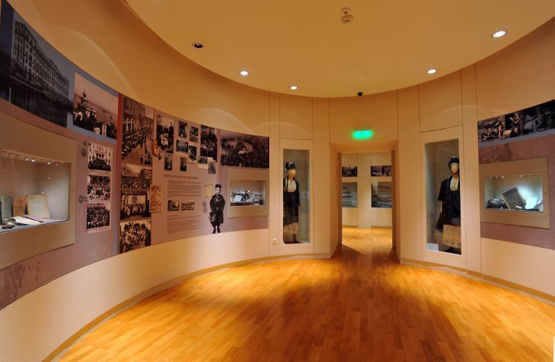 Hall B of the Museum, image from the Museum of the Macedonian Struggle, Thessaloniki, Central Macedonia, Greece